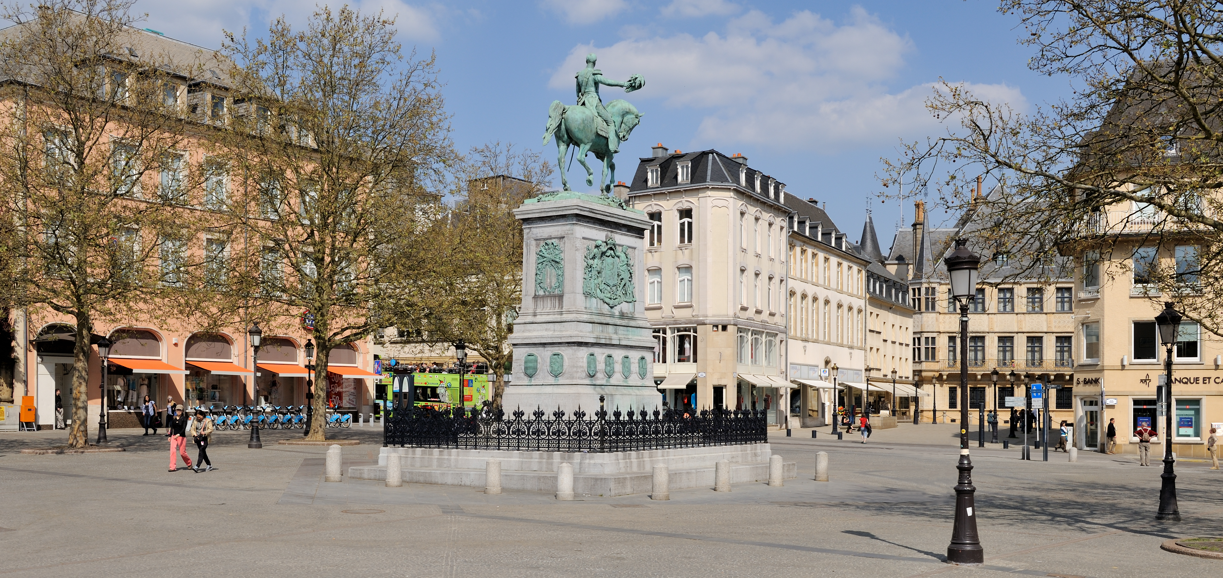 Luxembourg City: square Guillaume II with the statue of Guillaume II, King of The Netherlands and Grand Duke of Luxembourg.